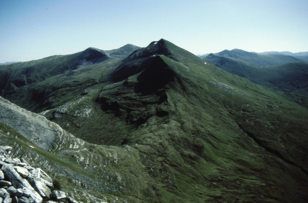 Summit of Sgùrr a' Bhuic Sgùrr a' Bhuic is the most southerly top of Aonach Beag. This view is across to the bealach to the Grey Corrie range, starting with Sgùrr Choinnich Beag and Sgùrr Choinnich Mòr.